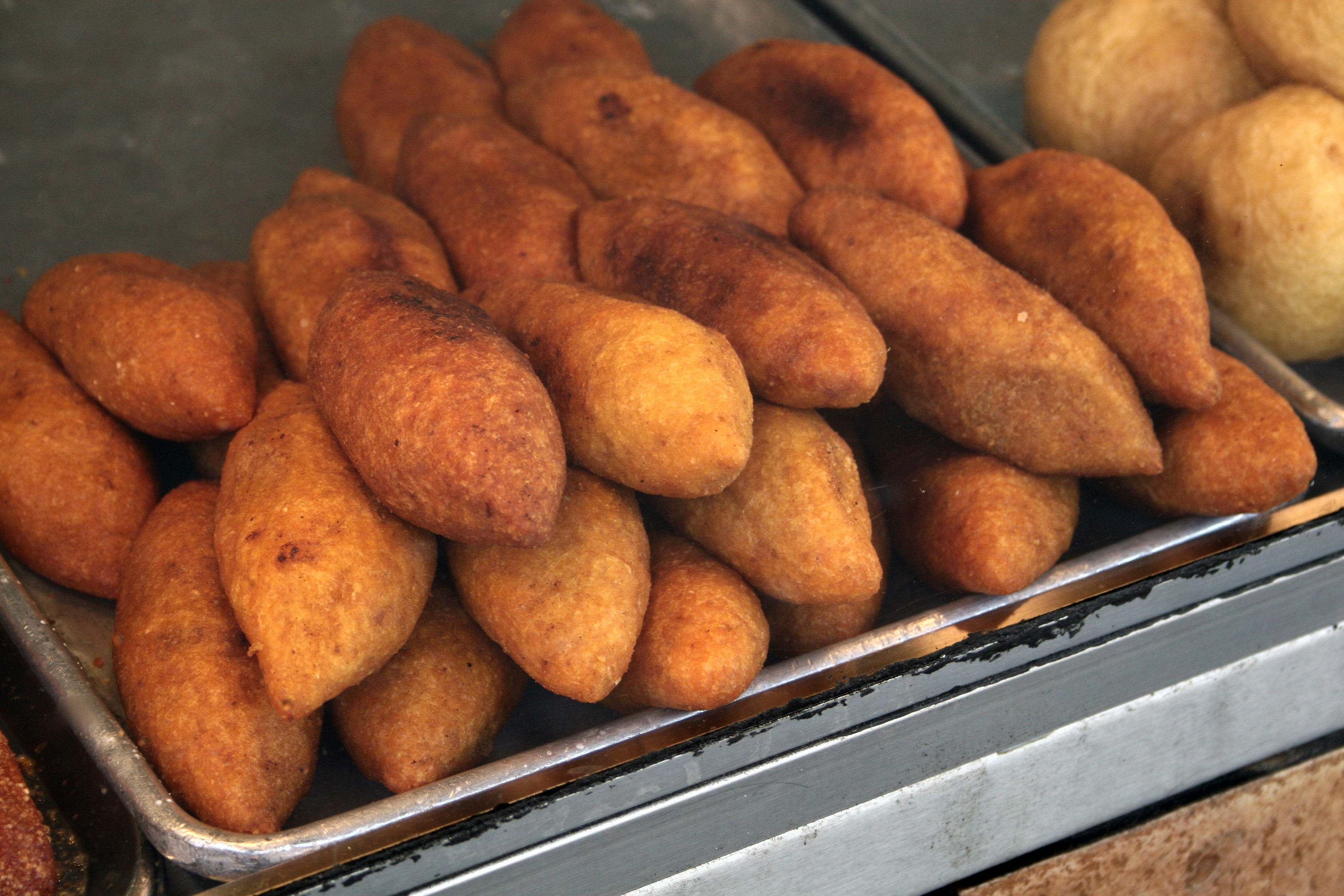 A tray of alcapurrias. Photo taken at the La Isla Restaurant, East 14th Street (between Avenue A and Avenue B), Peter Cooper Village—Stuyvesant Town, East Village, Manhattan, New York City, New York. Photo taken with a Canon EOS 30D digital camera. and (entries about this food item from the blog of the photographer)